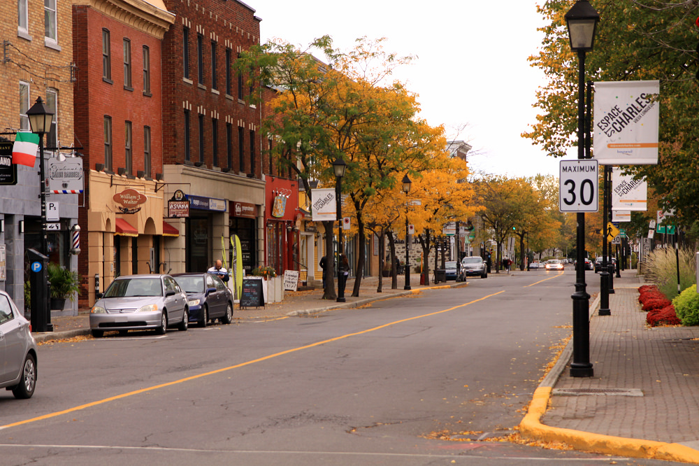 Rue Saint-Charles in Old Longueuil (October 2014). Rue Saint-Charles in Old Longueuil (October 2014).